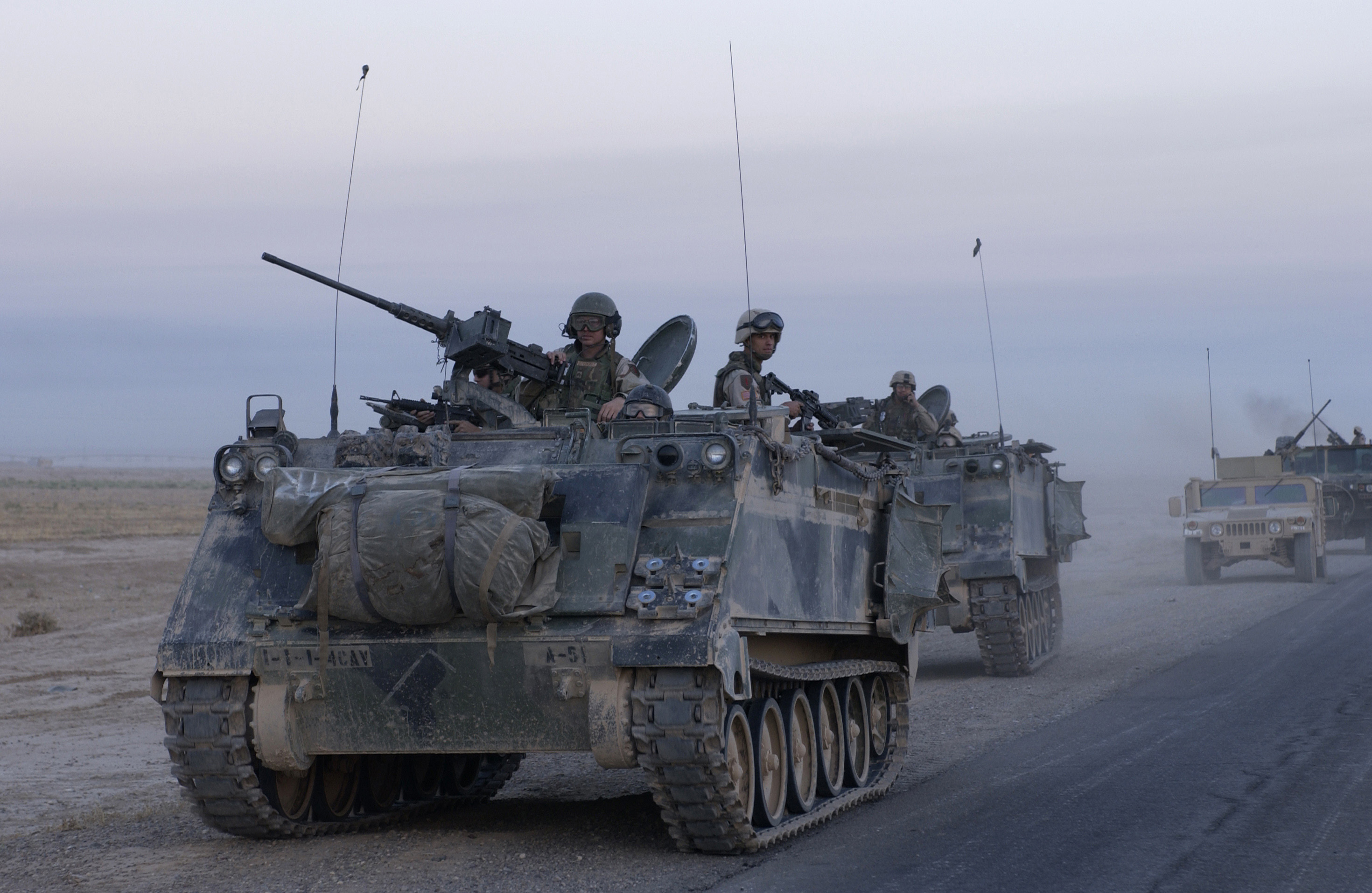 U.S. Army armored vehicles leave Samarra after conducting an assault during operation Baton Rouge in Samarra, Iraq, on Oct. 1, 2004. Soldiers of the 1st Battalion, 4th Cavalry Regiment, 1st Infantry Division conducted the assault and then surrounded Samarra sealing it off to keep anti-coalition forces from entering or leaving the town.